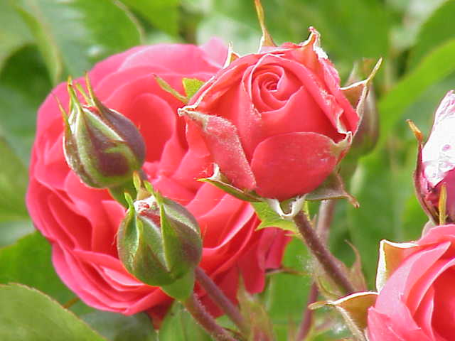 Species: Rosa sp. Family: Rosaceae Cultivar: Elveshörn, Kordes 1985 Image No. 95